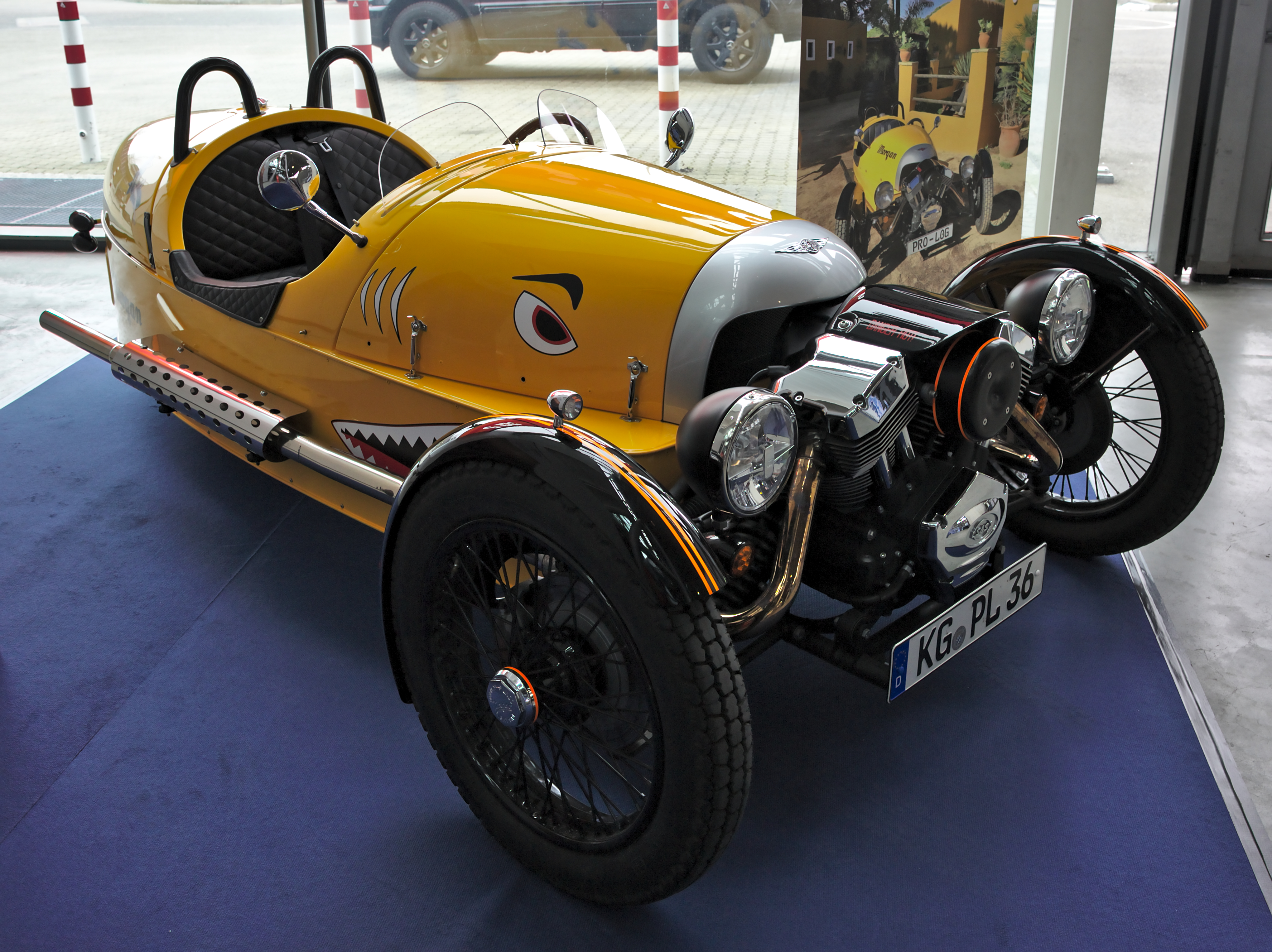 Morgan 3-Wheeler at Retro Classics 2018